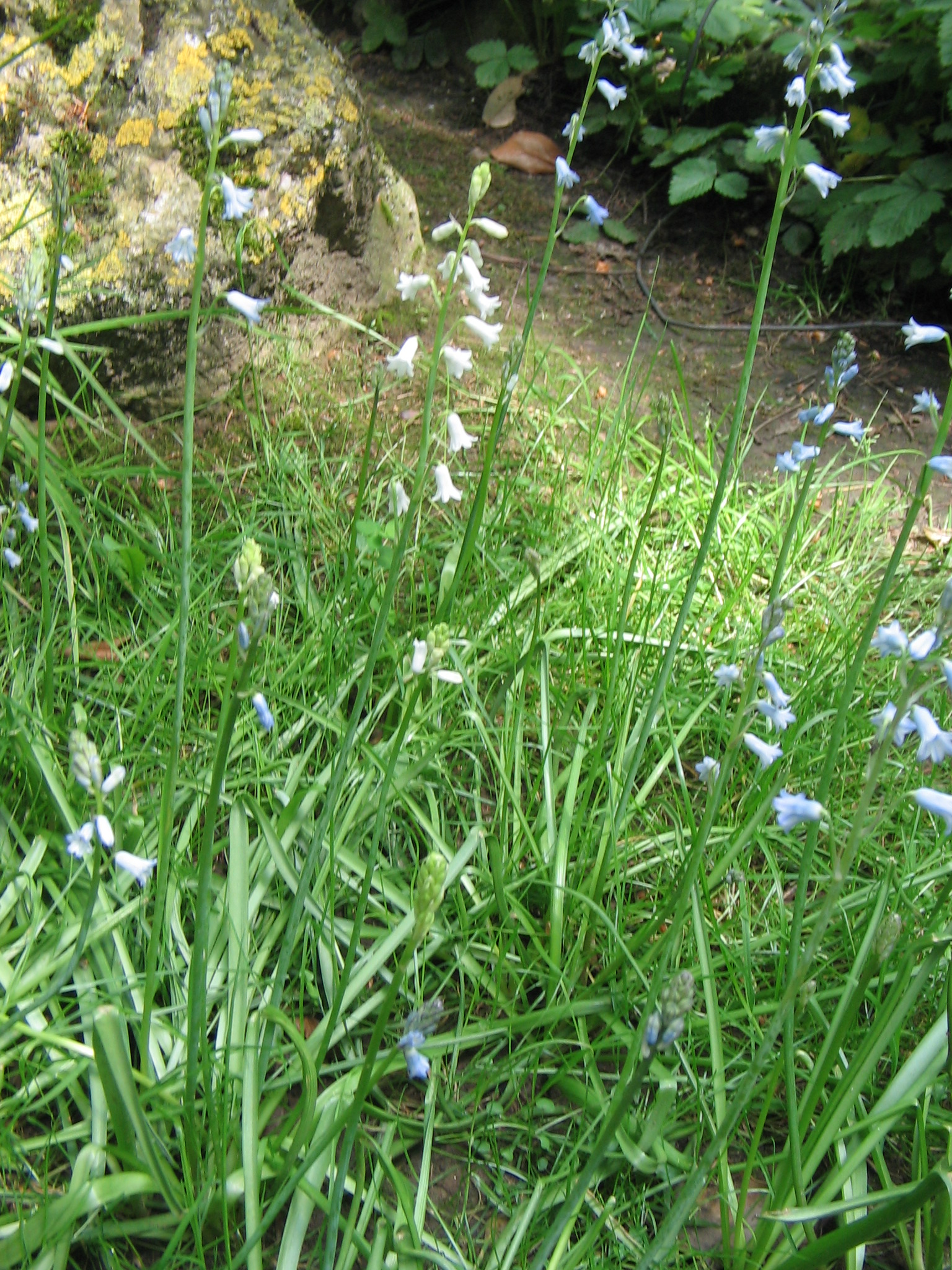 Brimeura amethystina - blue and white